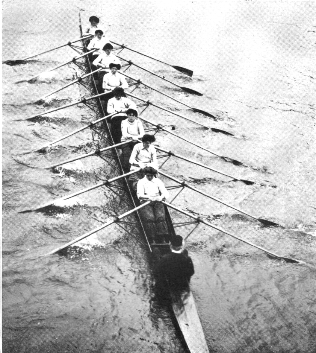 Photograph of F. J. Furnivall coxing the girls of the Hammersmith Sculling Club in 1907